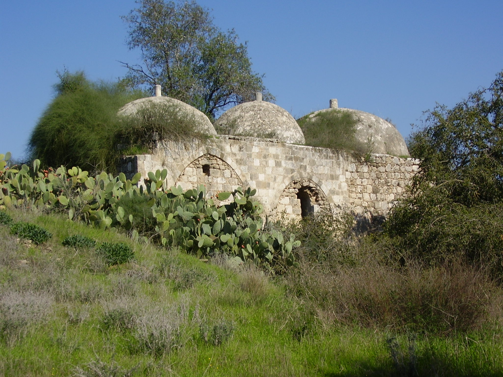 Neby Shit